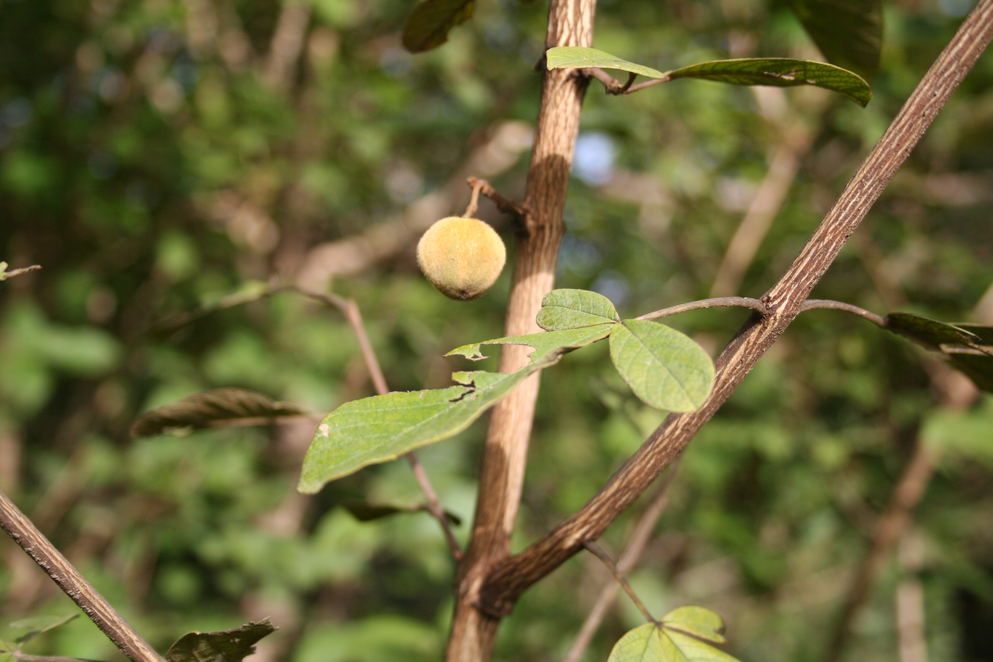 Vitex chrysocarpa, S Burkina Faso